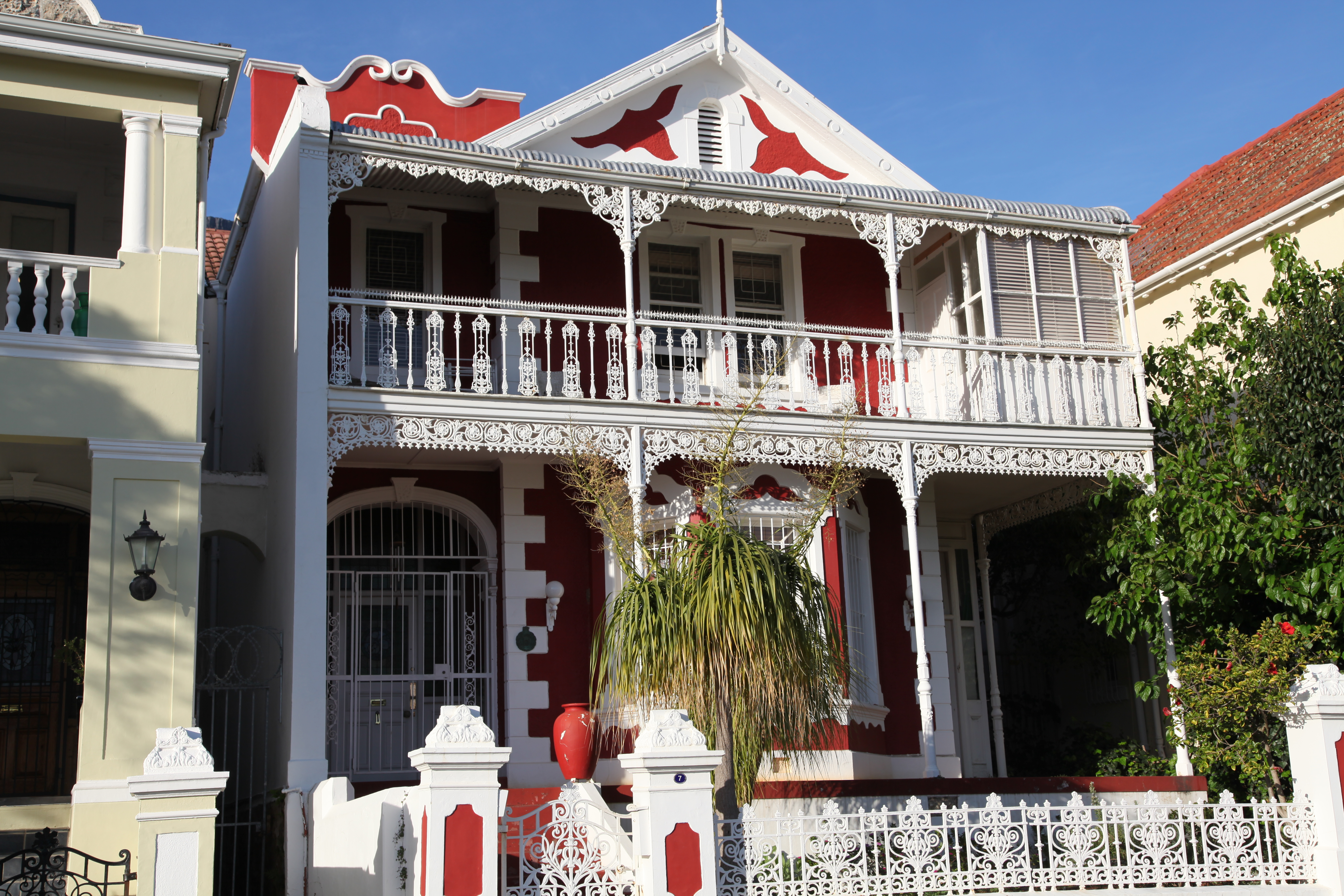 7 Belvedere Avenue, Oranjezicht, Cape Town is part of the parallel blocks above Molteno Reservoir (Molteno Dam) built between 1900 and 1905.